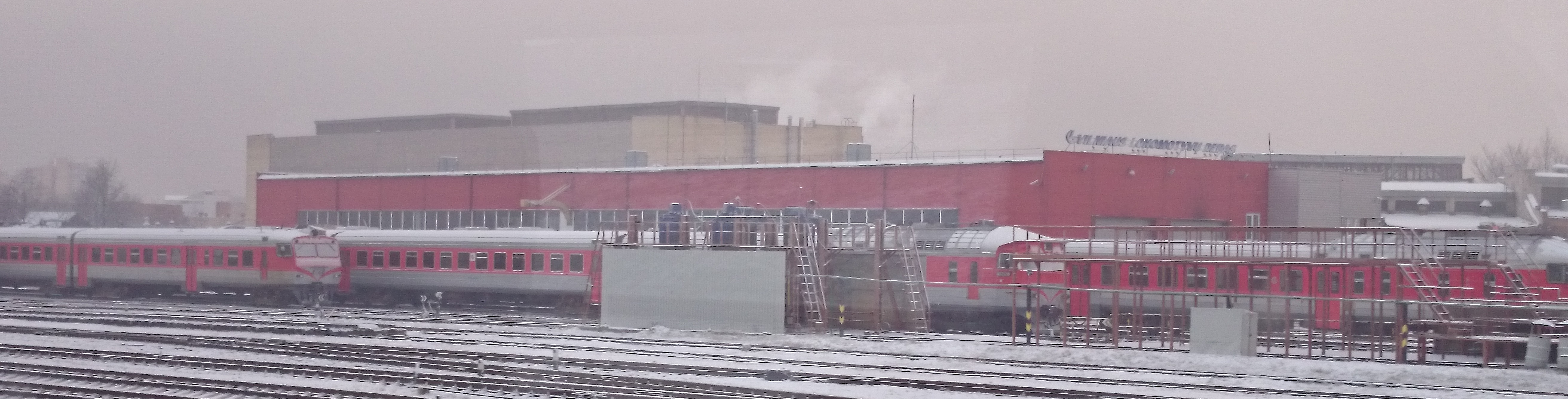 Vilniaus depas